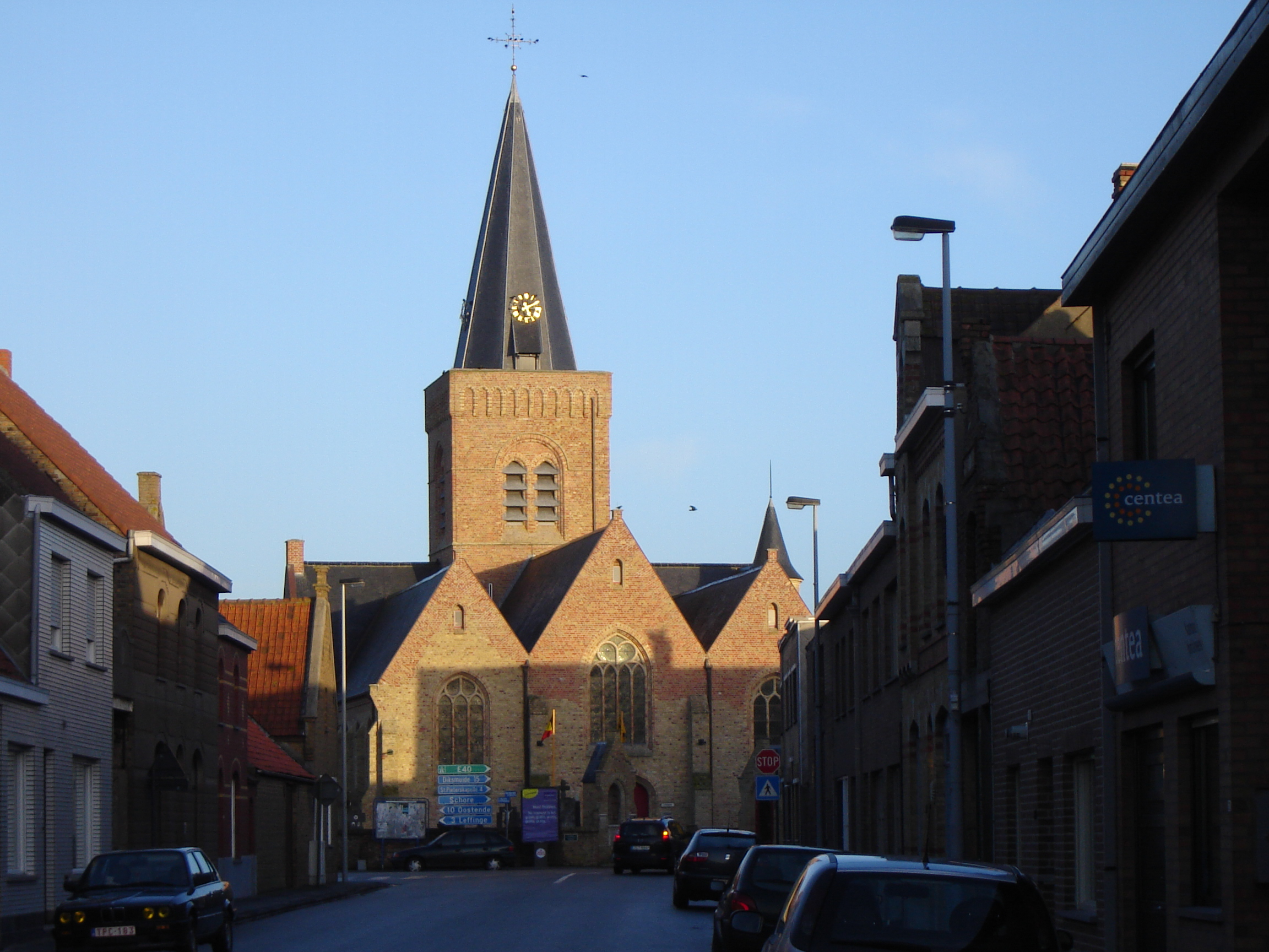 Saint Nicolas Church of Slijpe (as seen from street Spermaliestraat), Slijpe in Middelkerke, West Flanders, Belgium